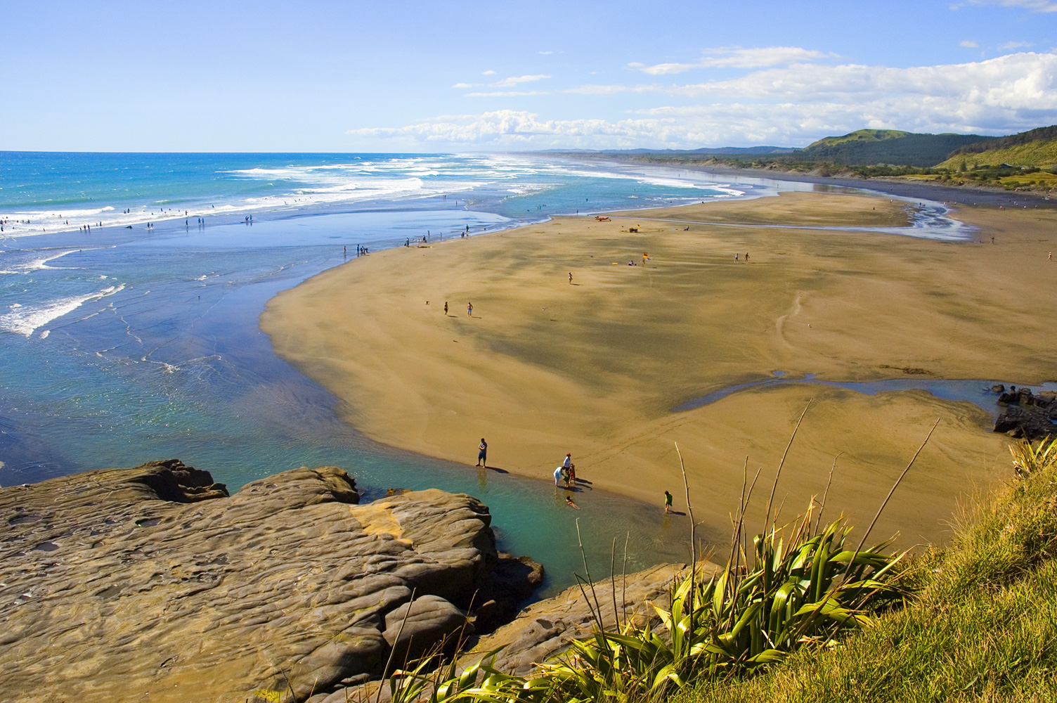 Muruwai Beach (11 January 2005.) Photograph by James Shook, who retains copyright and releases the image under the license shown below.